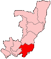 Map of the Republic of the Congo showing Pool region.